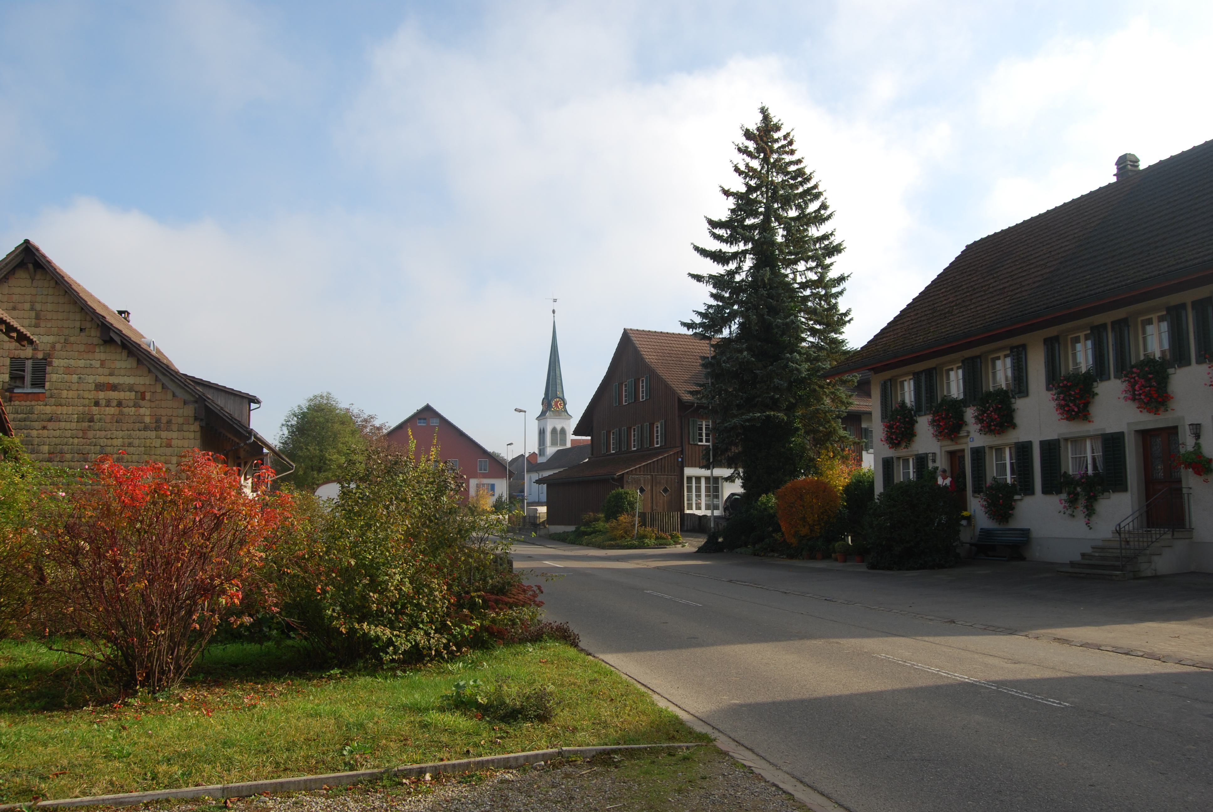 Thalheim an der Thur, canton of Zürich, SwitzerlandEsperanto: Thalheim ĉe Turo, Kantono Zuriko, Svislando